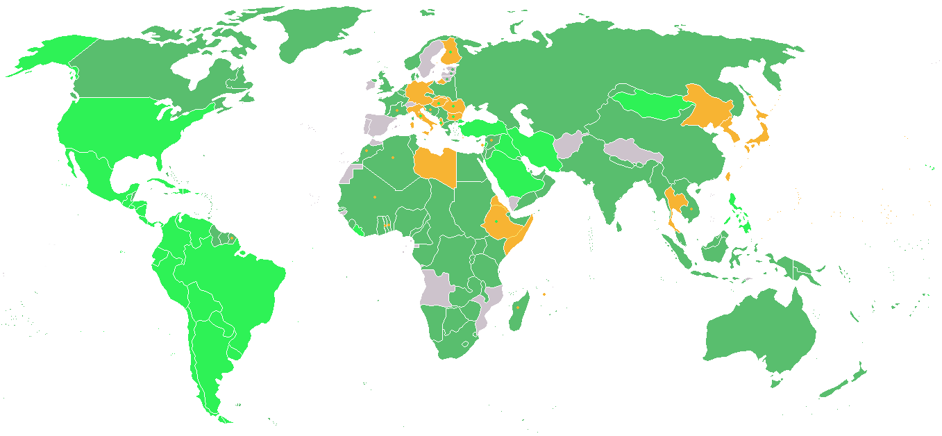 Map with the Participants in World War II: Dark Green: Allied forces before the attack on Pearl Harbor. Light Green: Allied countries that entered the war after the Japanese attack on Pearl Harbor. Orange: Axis Powers Dark green dots represent countries that initially were neutral but during the war were annexed by the USSR. Light green dots represent countries that later in the war changed from the Axis to the Allies Orange dots represent countries that after being conquered by the Axis Powers, became puppets of those (Vichy France and several French colonies, Croatia)